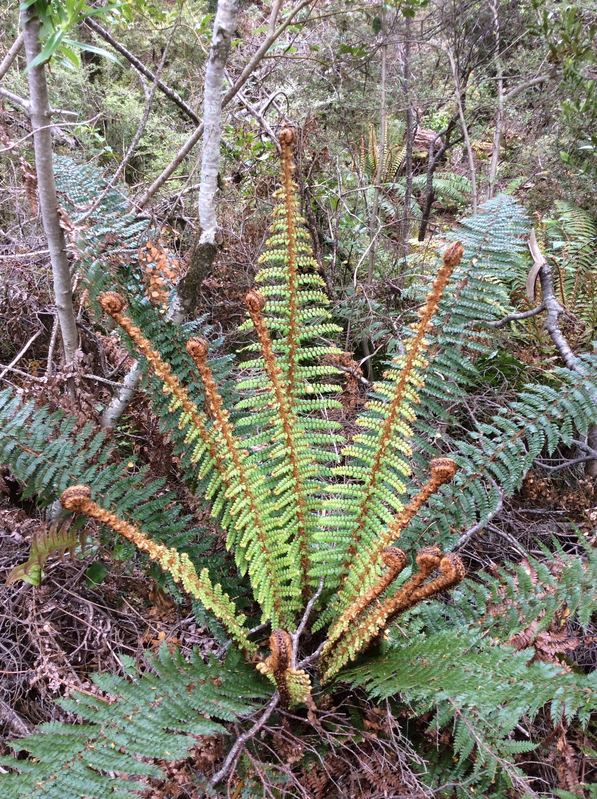 Polystichum vestitum, Governors Bush Walk near Mount Cook Village, South Island, New Zealand.